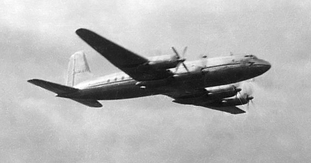 Handley Page Hermes V G-ALEU at Farnborough SBAC Display September 1950